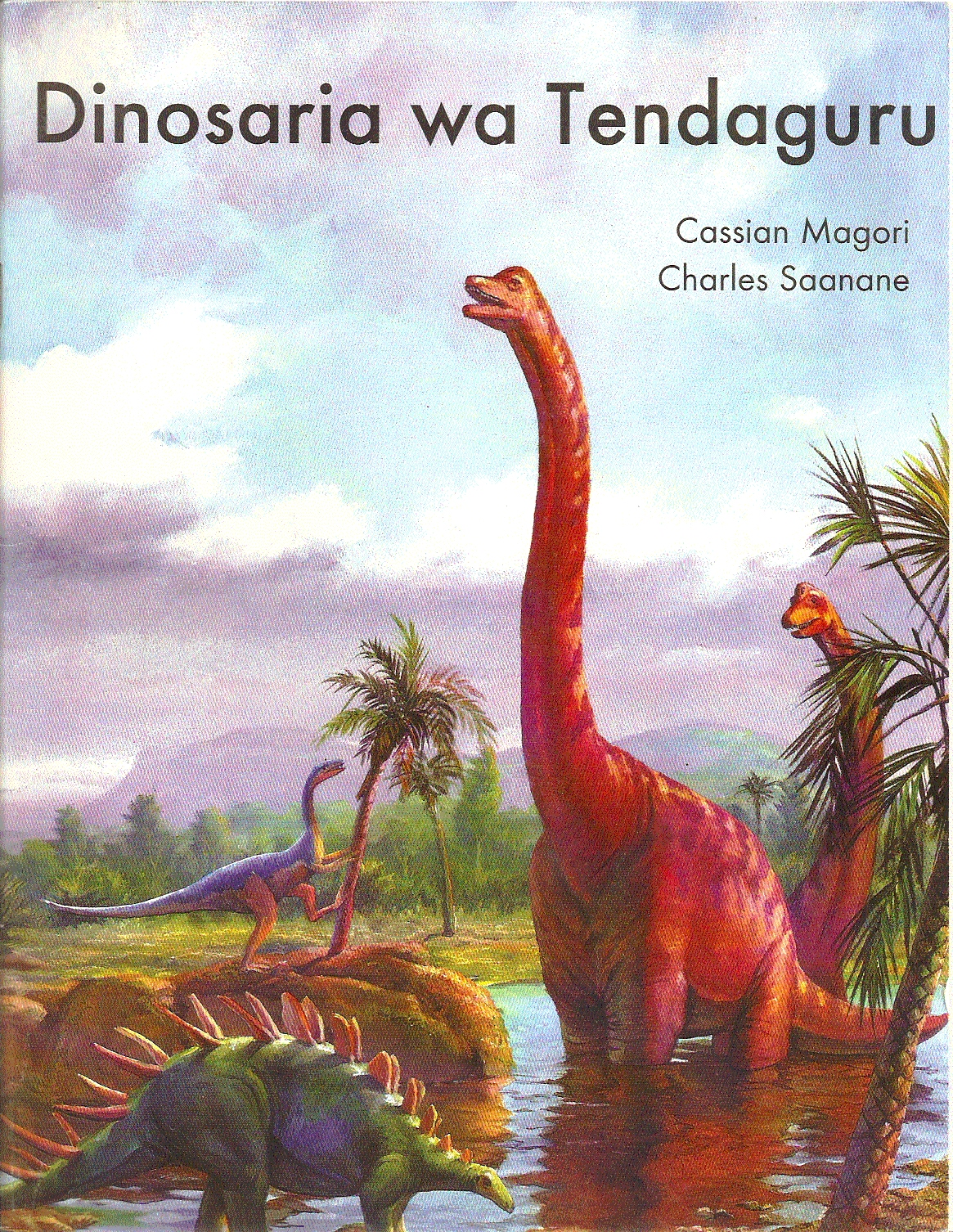 Cover of book on dinosaurs in Kiswahili